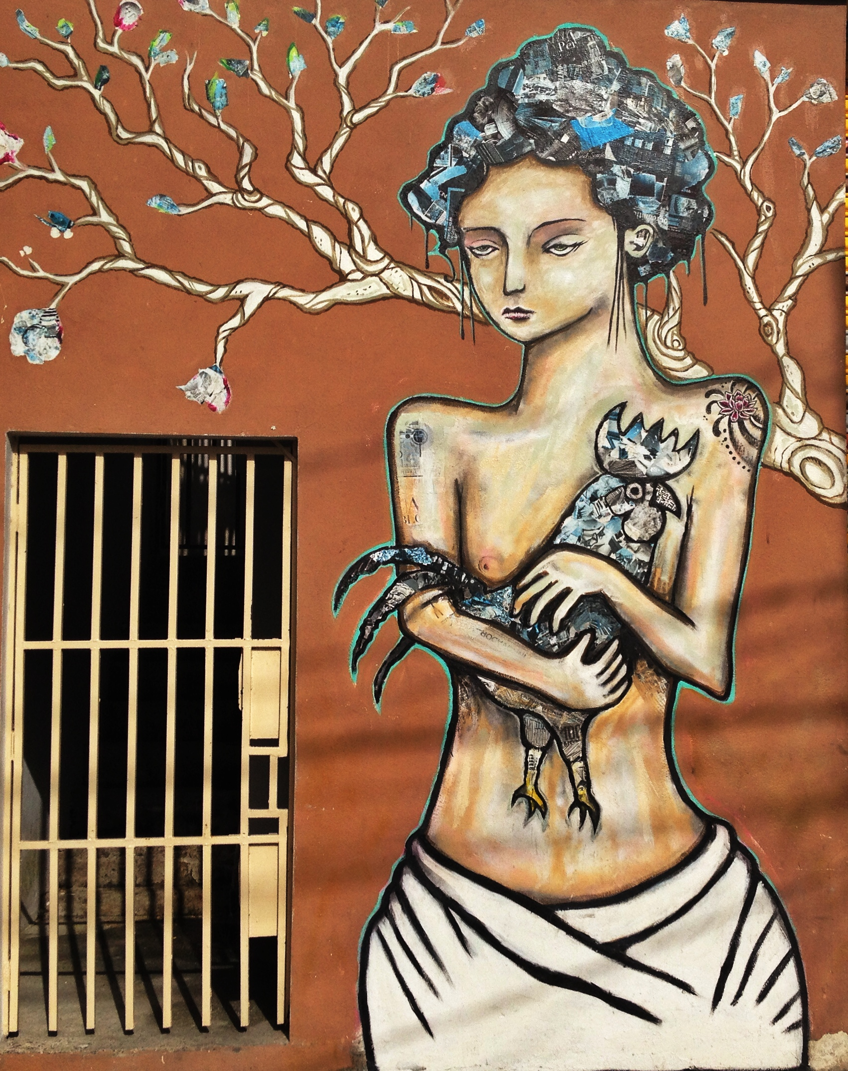 Graffiti in Calle Cerra Santurce, Puerto Rico